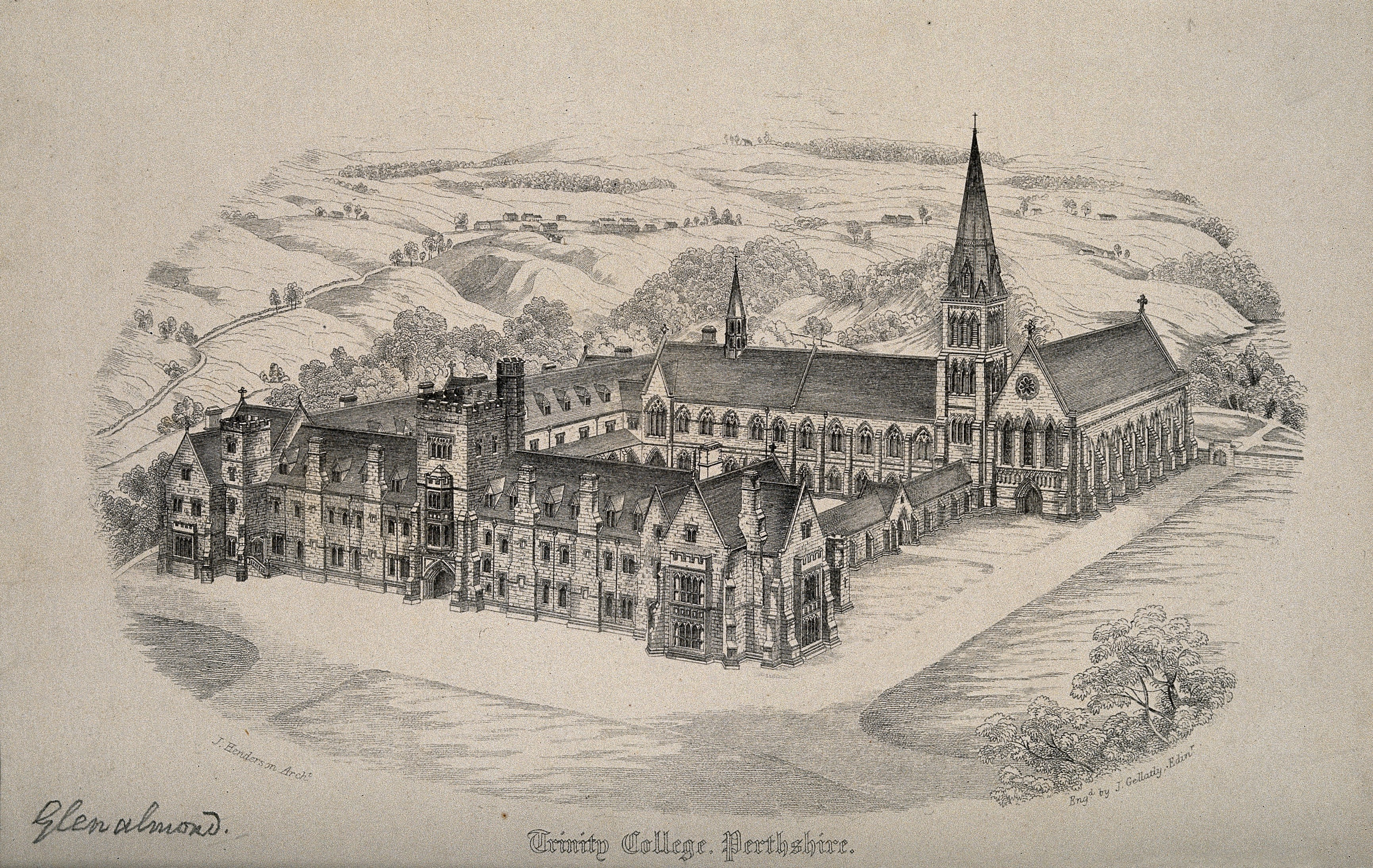 Trinity College, Glenalmond, Perthshire, Scotland. Etching by J. Gellatly after J. Henderson. Iconographic Collections Keywords: J. Gellatly; Trinity College (Glenalmond, Scotland); J. Henderson